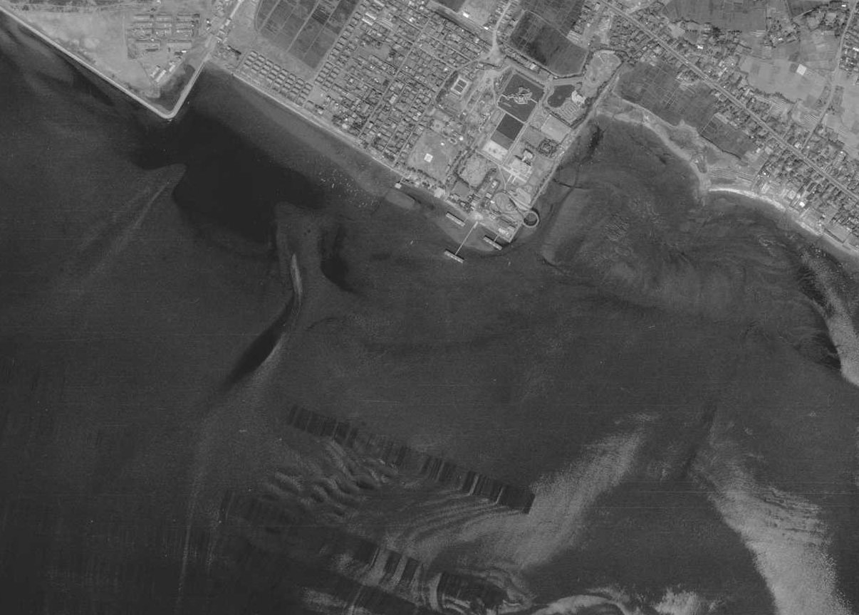 Around Yatsu-Higata taken in 1961